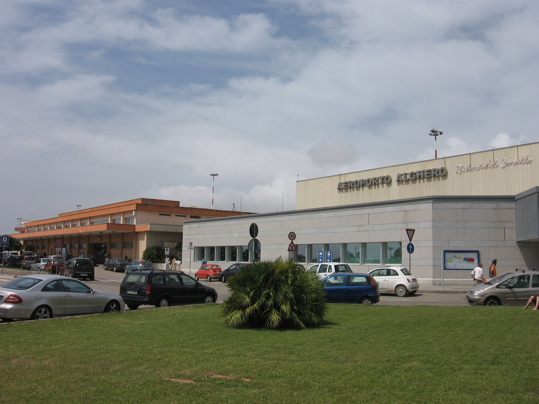 Alghero Airport (front)